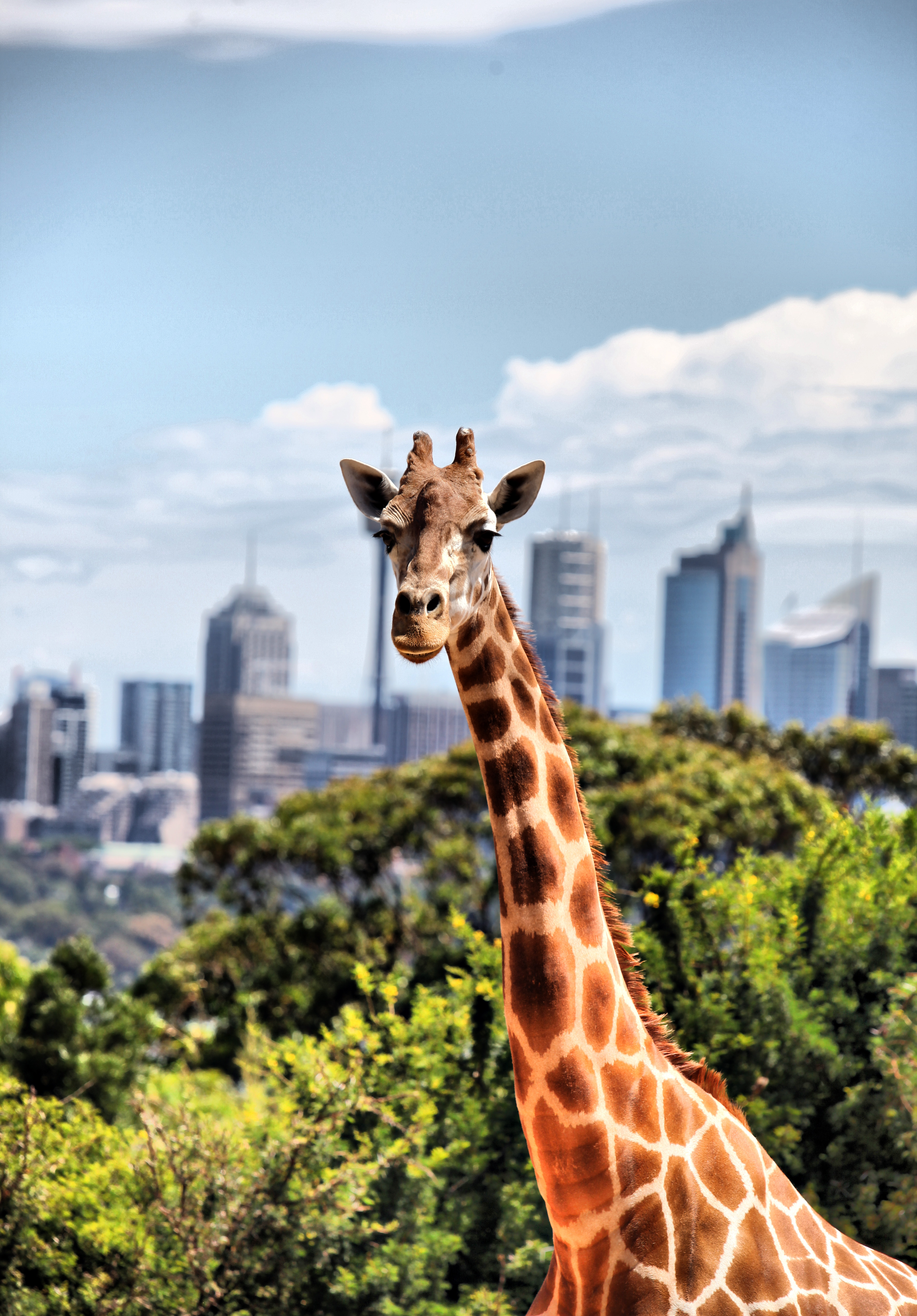 Category:Giraffa camelopardalis reticulata in Taronga Zoo